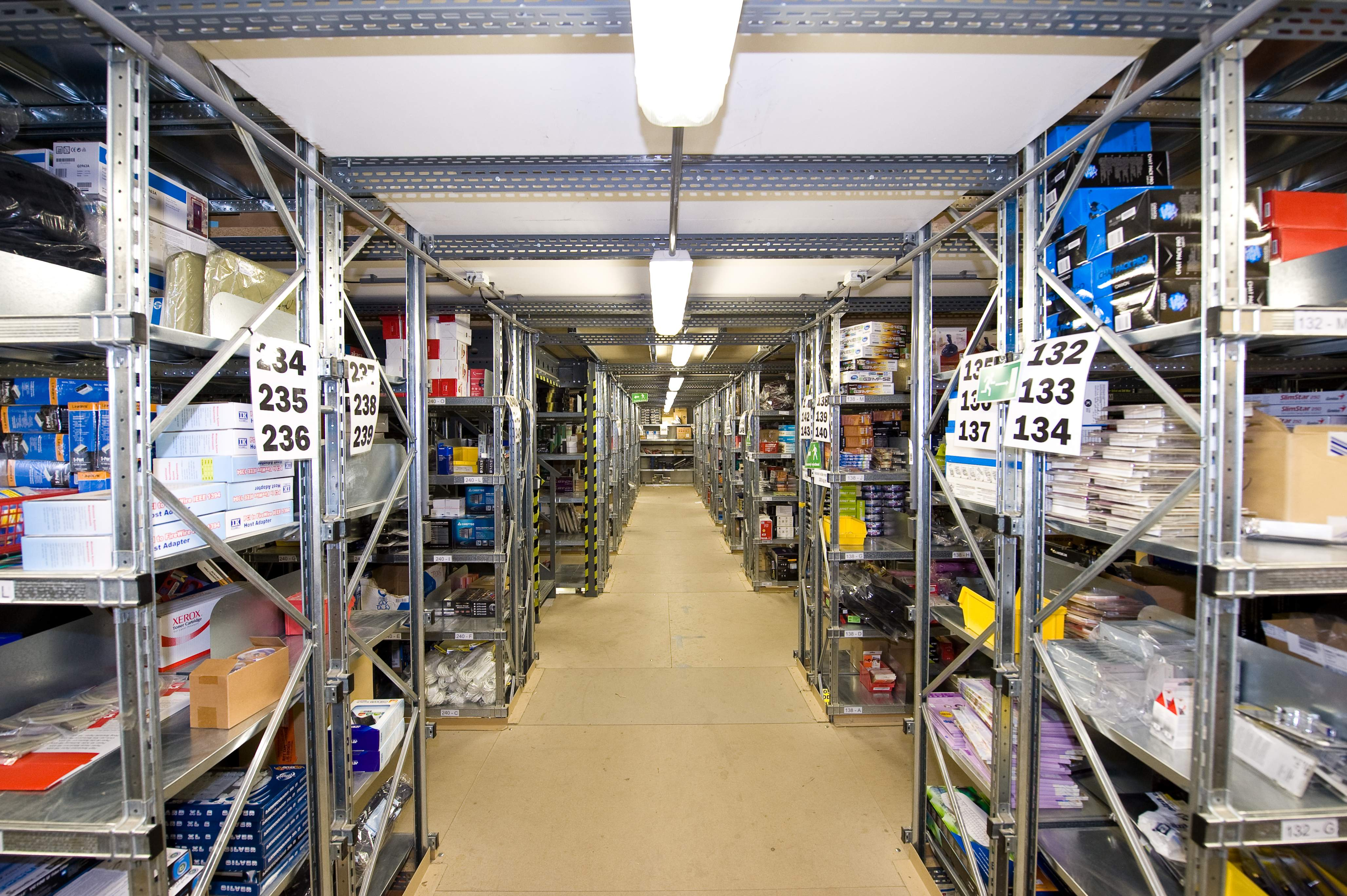 warehouse alza